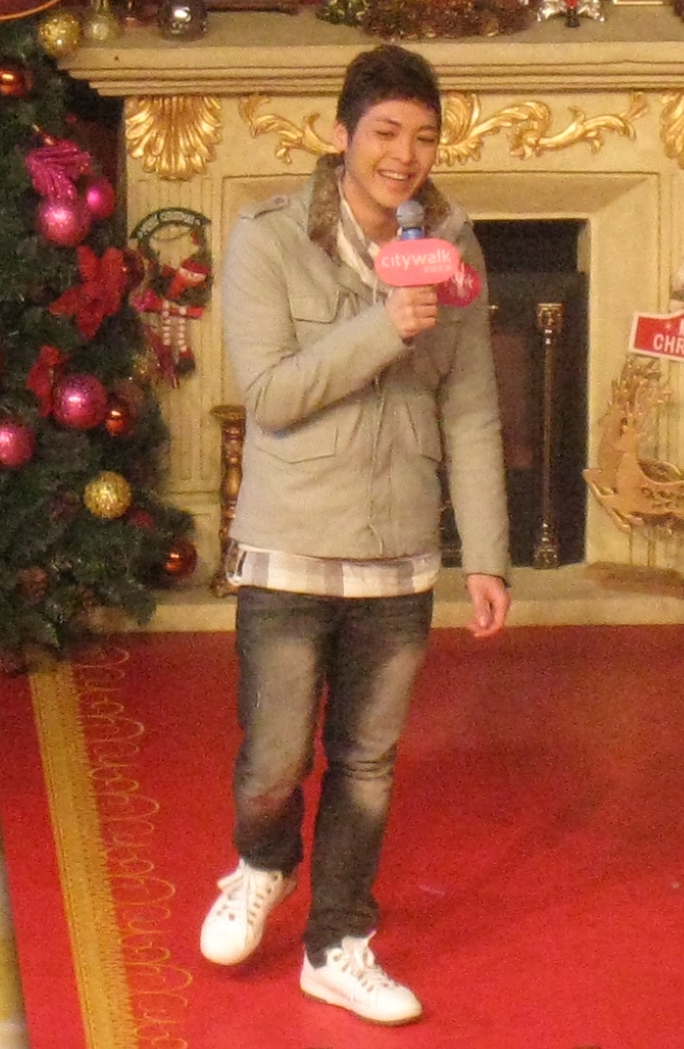 SHELDON LO